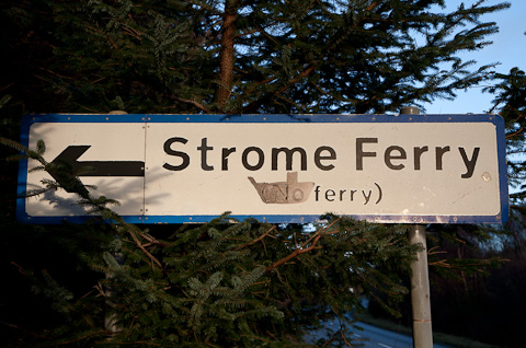 The infamous Stromeferry (no ferry) road sign suitably modified for the temporary reintroduction of the ferry service in 2012.